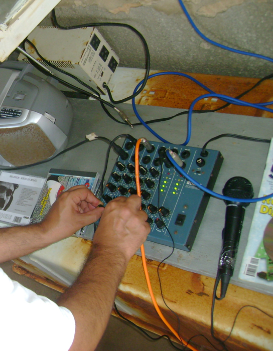 The Serviluz FM radio aired on April 04, 2007 in Fortaleza/CE/Brazil. Born of the need for organized people to build their own media.